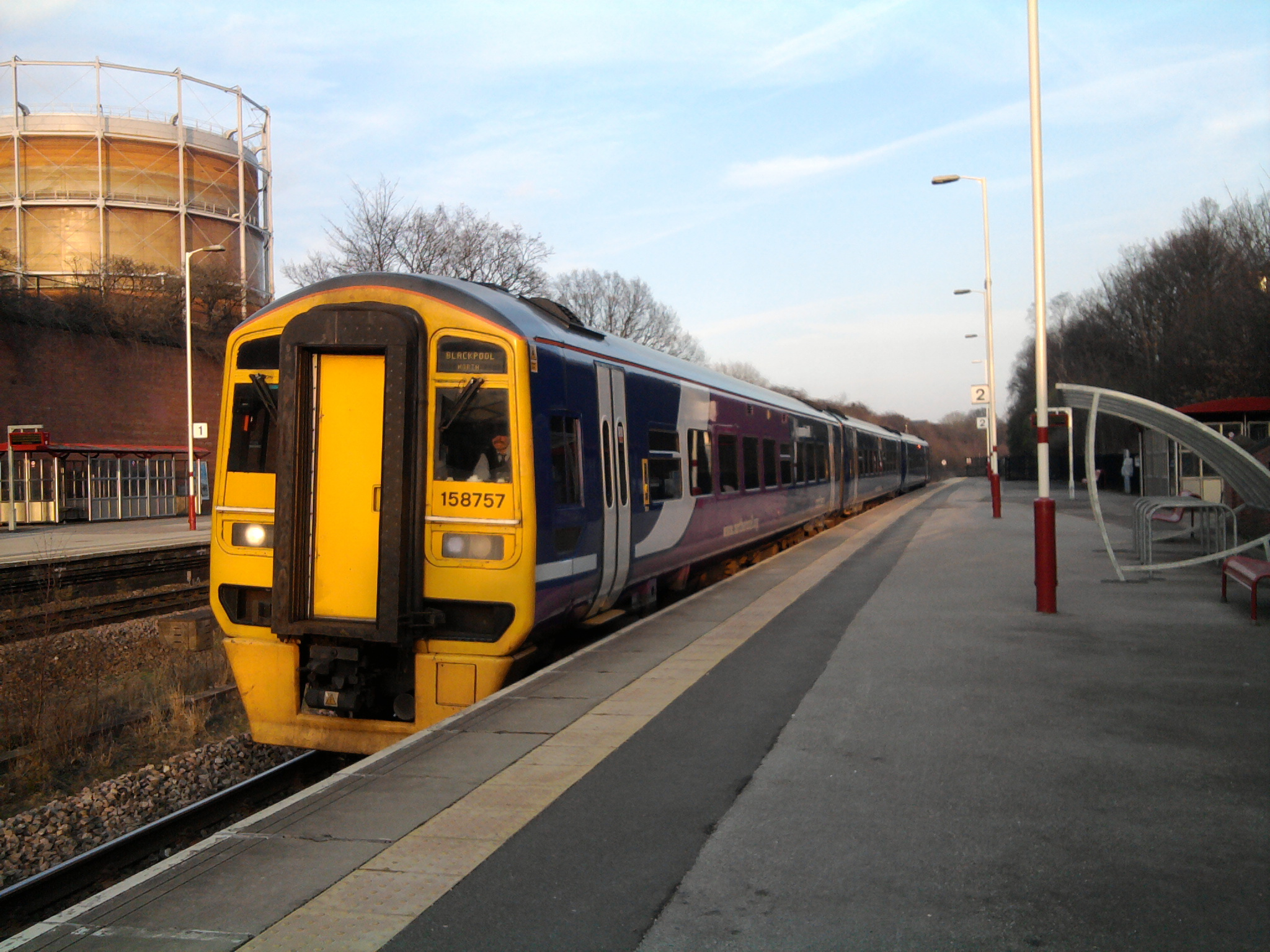 Northern Rail Class 158 No 158757 Stands at Cross Gates railway station Working a York to Blackpool North Service.